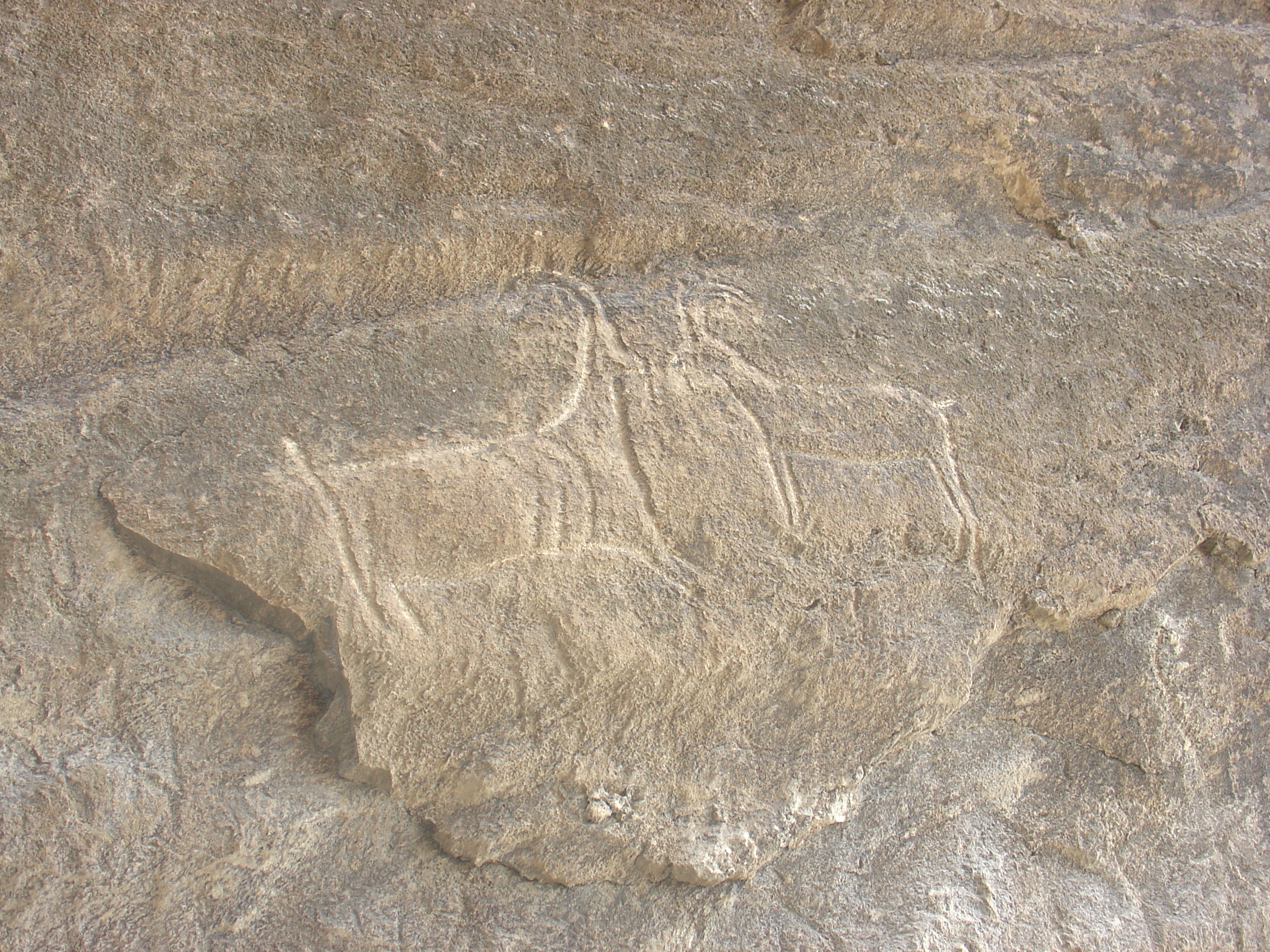 More Petroglphs from Qobustan